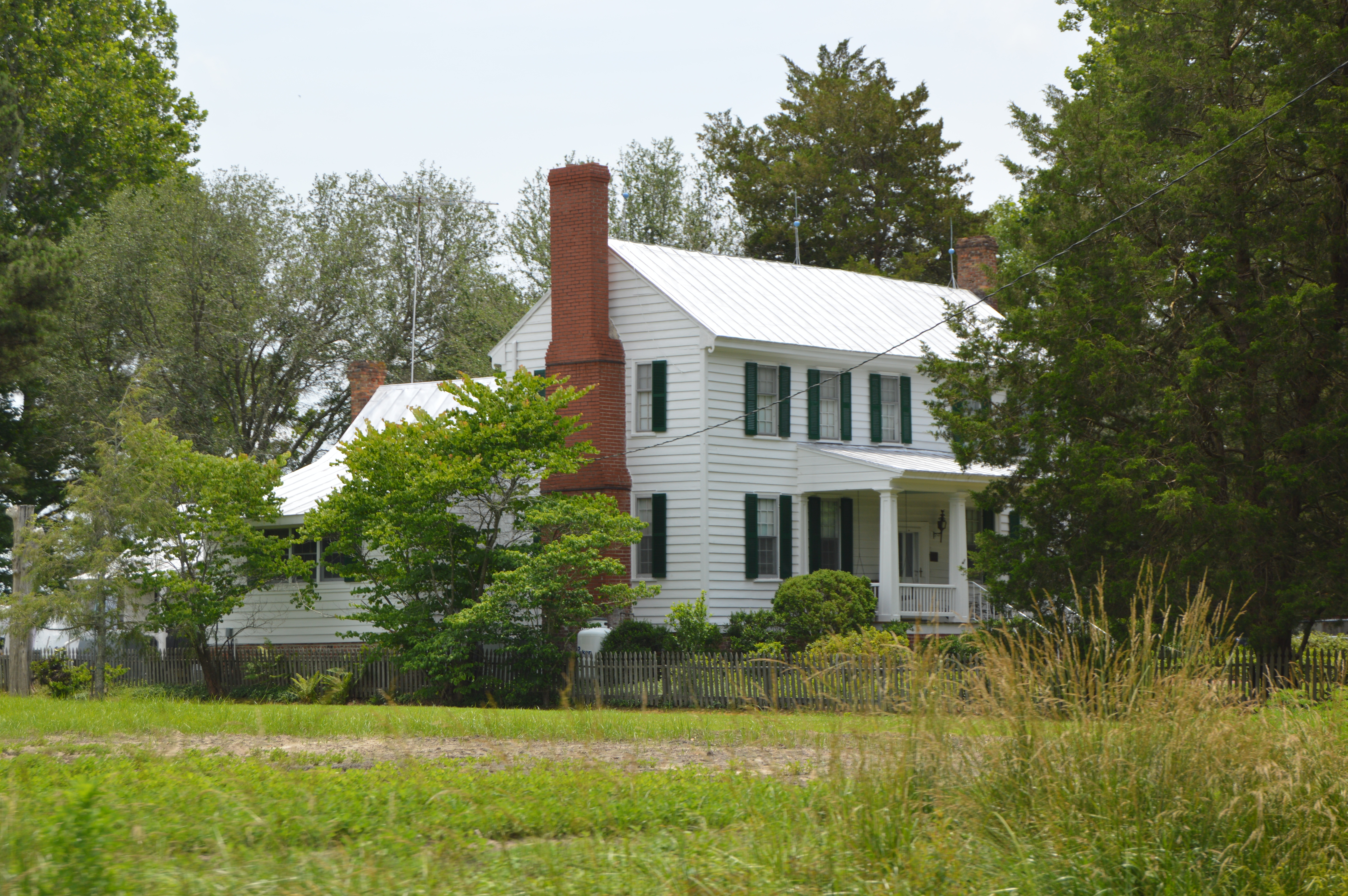 Northern side of the Freeman House, which sits along U.S. Route 13 straddling the border between Virginia (northern) and North Carolina (southern) in the United States. The northern side is in the city of Suffolk, while the southern side is in unincorporated Gates County. Built before 1800, the house is listed on the National Register of Historic Places.